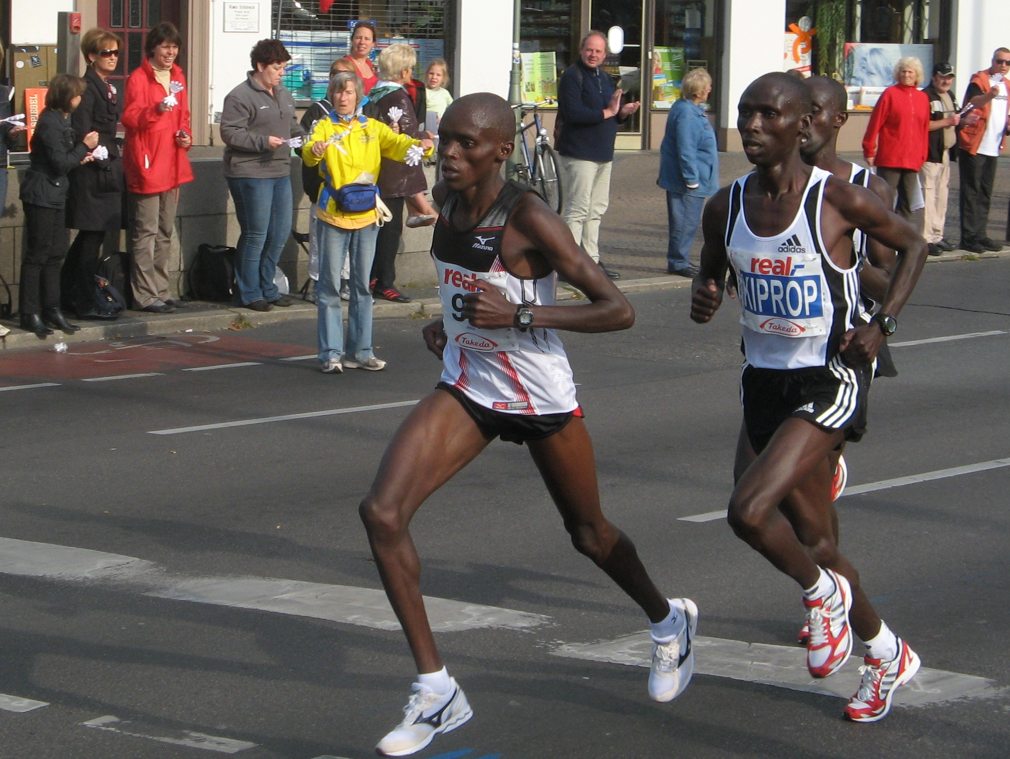 Berlin-Marathon 2008, ?, Frances Kiprop and ? at Kilometer 24